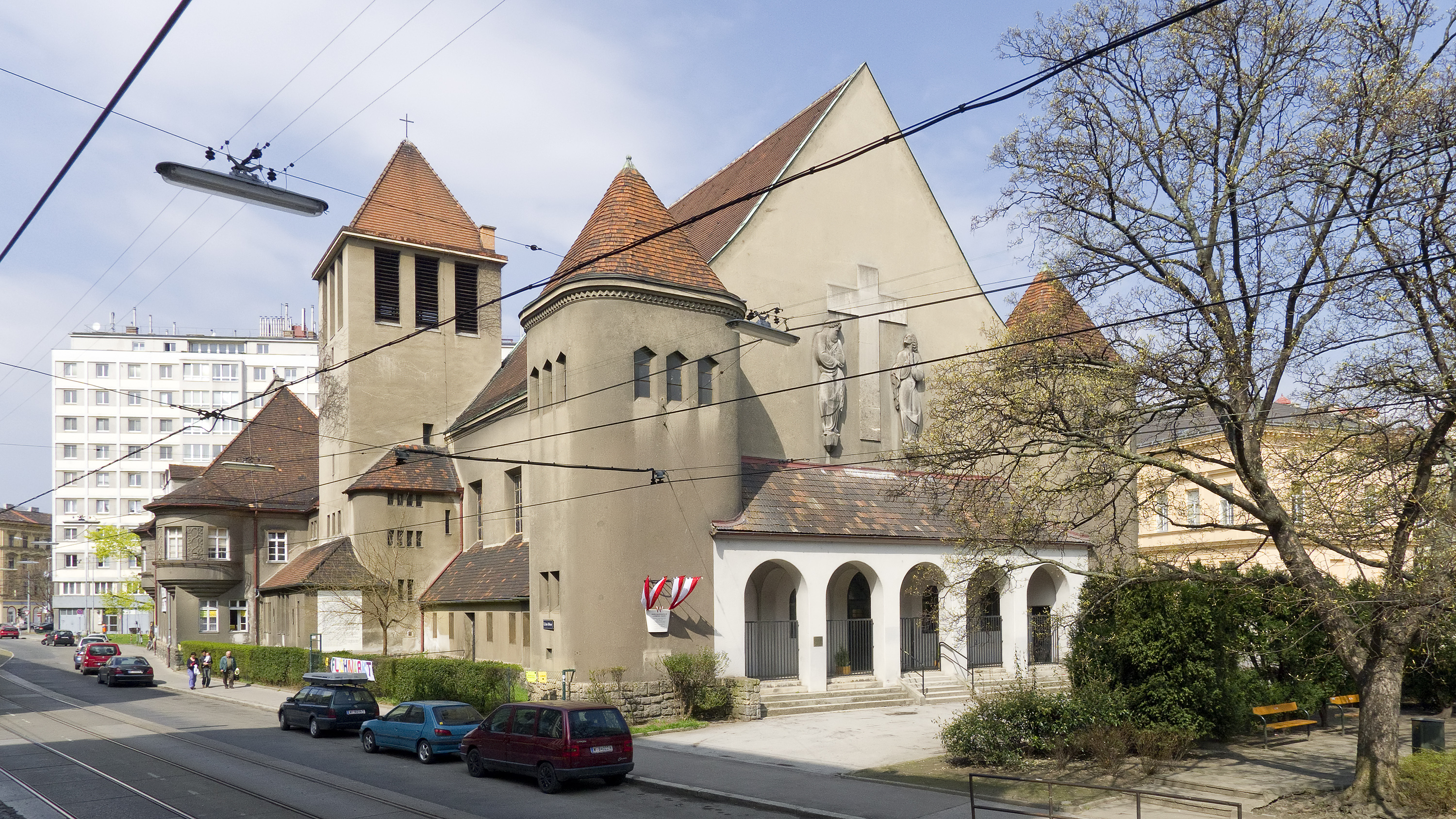 Church Verklärungskirche (Wien) in Vienna Leopoldstadt